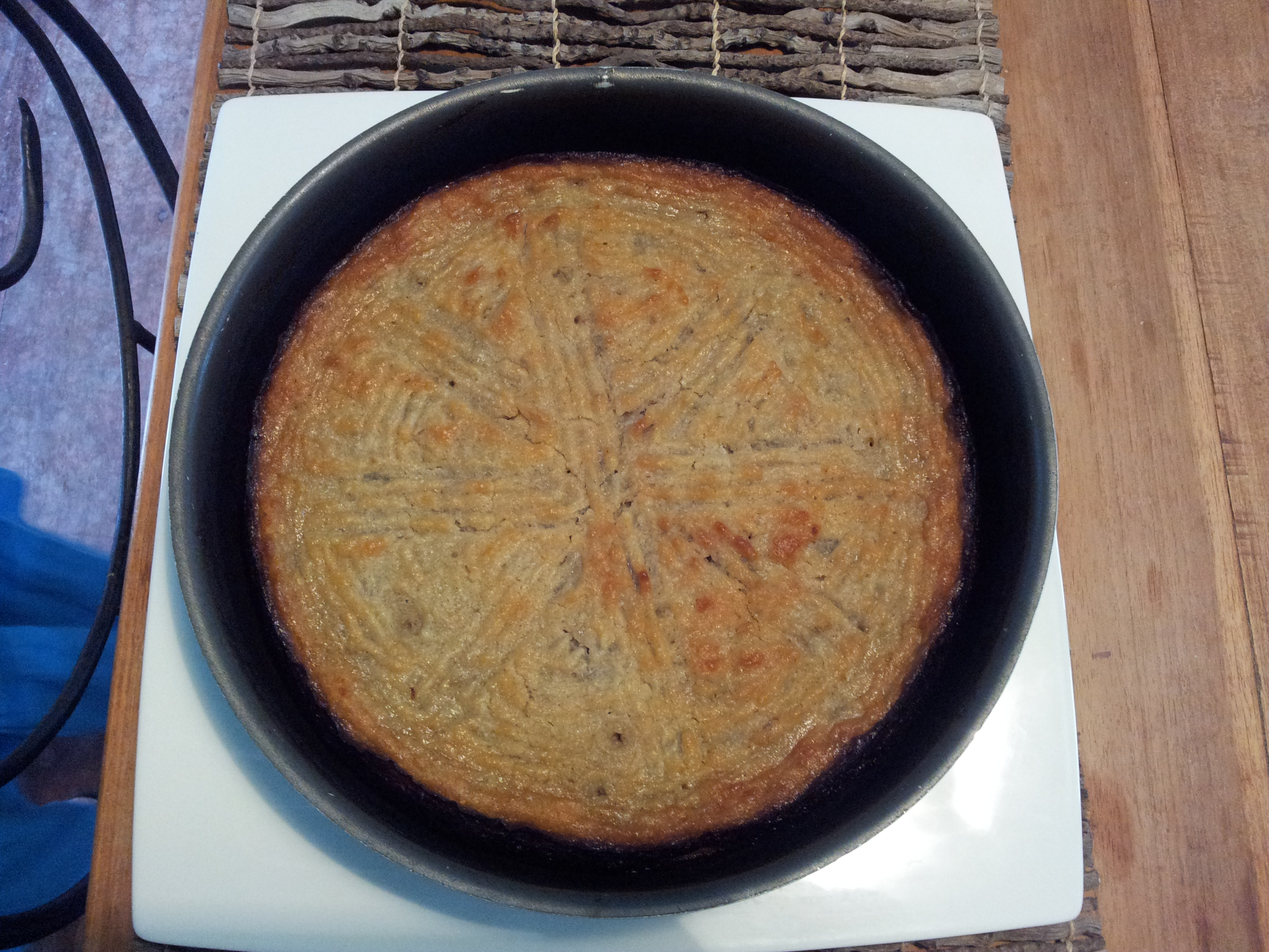 Cake with sweet potatoes This is an image of "African people at work" from Réunion